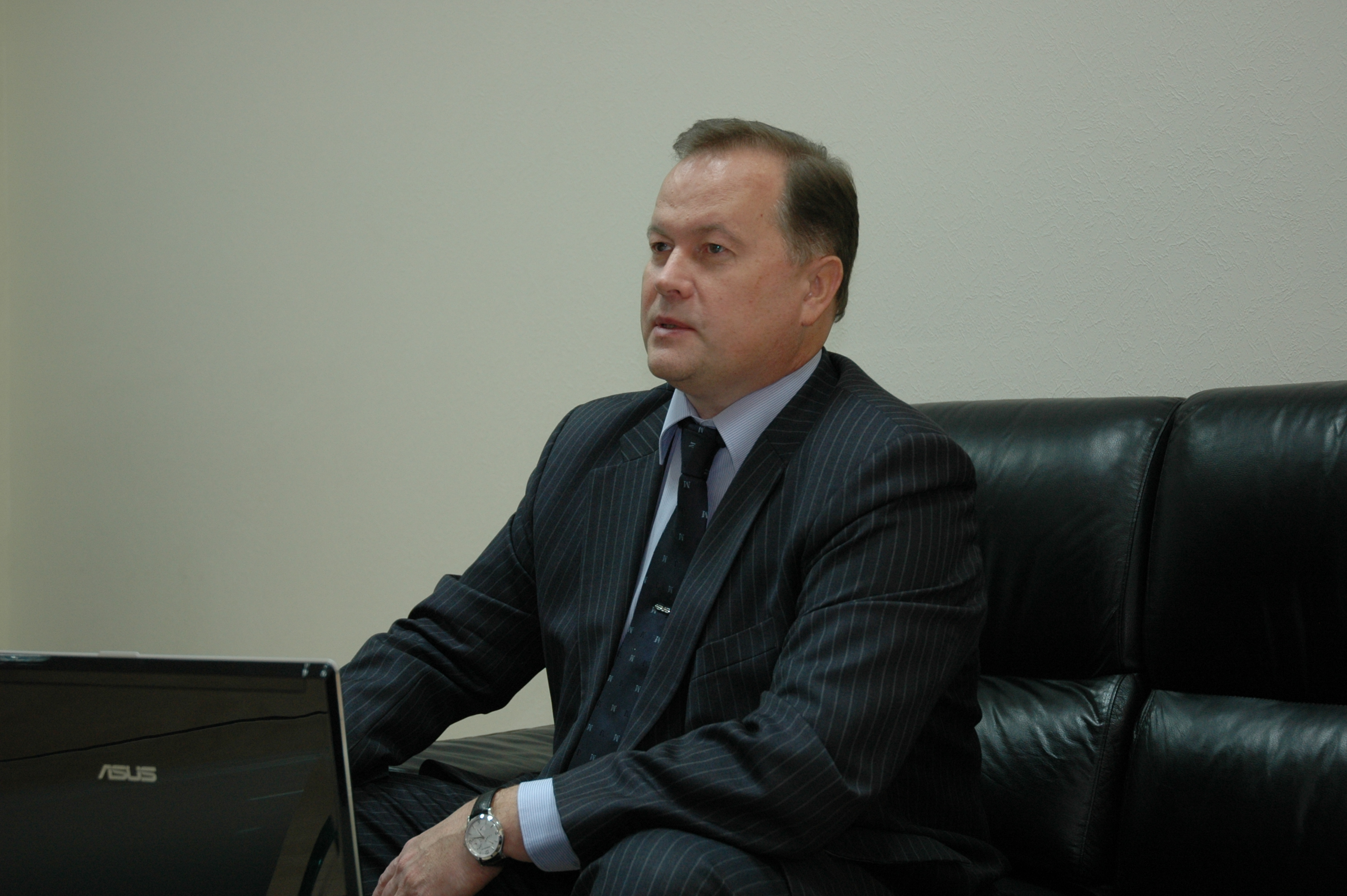 Michael Lukashevich, Head of Representative Office of ASUS Global Pte. Ltd. in Ukraine.